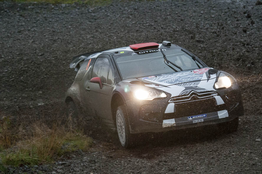 Wales Rally GB 2011 Aberllefenni,Citroen DS3 WRC,Corris Community,GBR,Gartheiniog 2,Großbritannien,Ice 1 Racing,Kai Lindström,Kimi Räikkönen,Motorsport,Rally,Rallye,SS10,WP10,Wales,Wales Rally GB